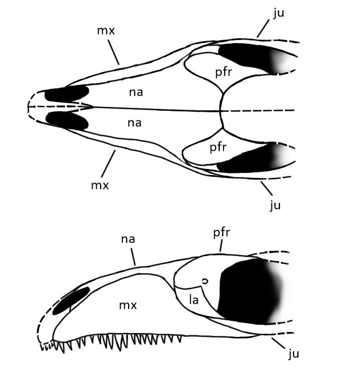 A reconstruction of IVPP V3233, the holotype partial skull of Prolacertoides jimusarensis, an extinct archosauromorph. The reconstruction is in dorsal (top) and left lateral (bottom) views, and specific skull bones are labelled. mx=maxilla na=nasal pfr=prefrontal la=lacrimal ju=jugal